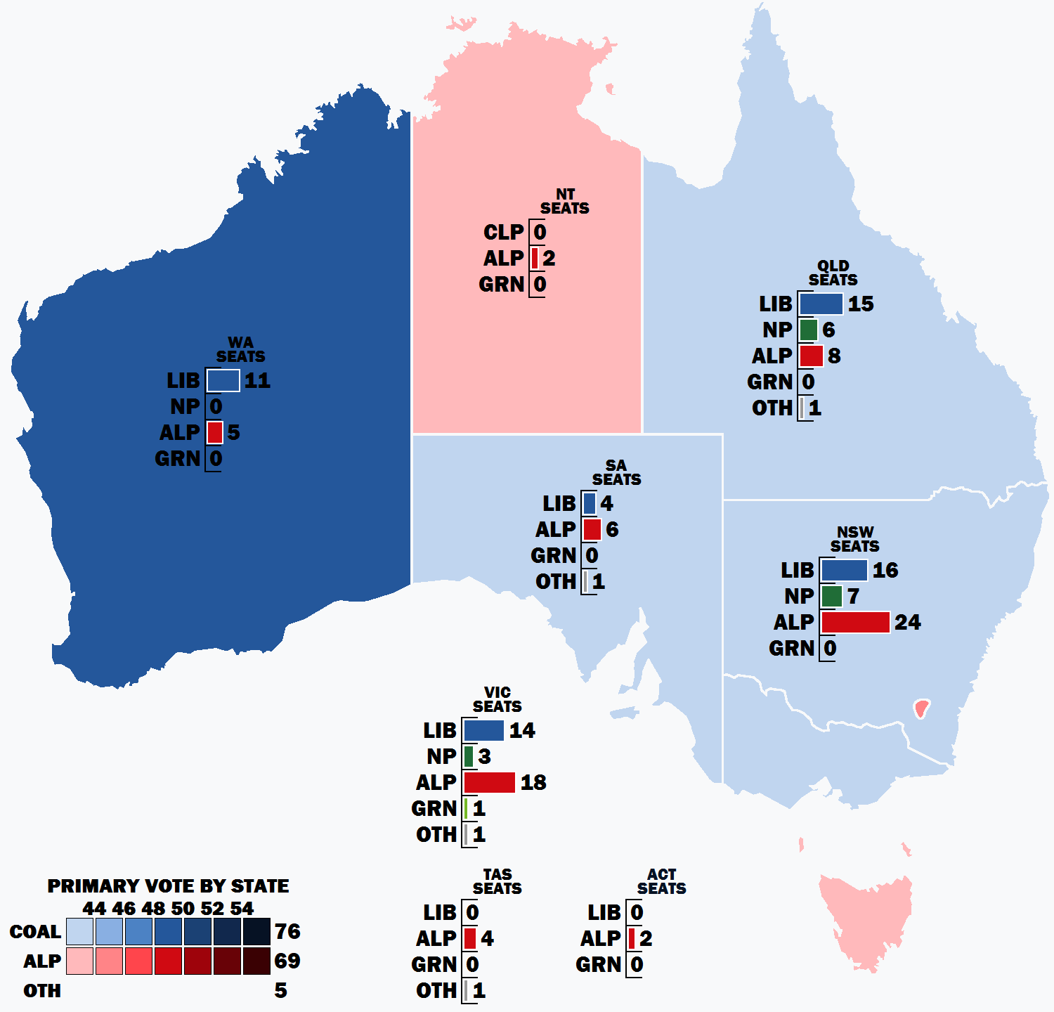 Result of the primary vote by state and territory in the 2016 Australian federal election.